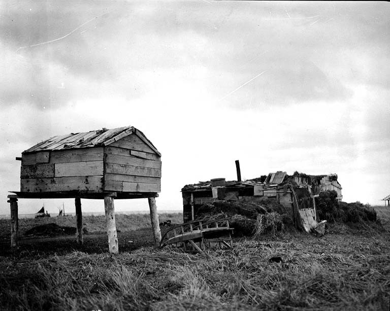 From John Cobb field notebook: Native barabbaras and caches, N.C. Subjects (LCTGM): Eskimos--Structures; Eskimos--Subsistance activities; Caches--Alaska--Nushagak; Food storage buildings--Alaska--Nushagak; Houses--Alaska--Nushagak Subjects (LCSH): Dwellings--Alaska--Nushagak; Eskimos--Alaska--Nushagak; Sod houses--Alaska--Nushagak